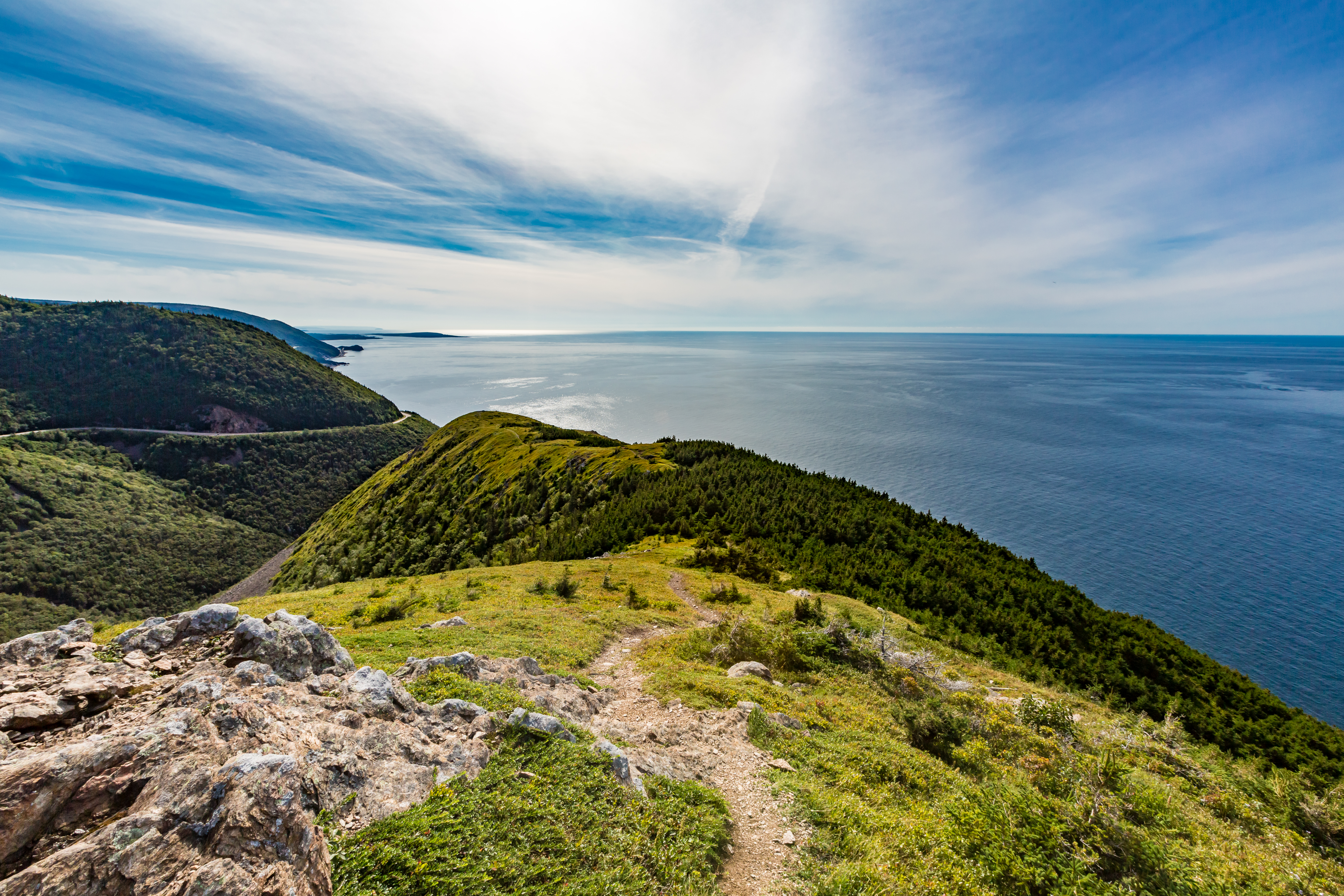 The Cabot Trail wraps around Cape Breton Island, as viewed from the end of Skyline Trail, Nova Scotia, Canada.